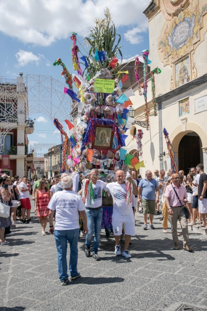 Santa Maria a Vico. Festa di Maria SS. Assunta. I carri votivi con i doni in natura e in denaro